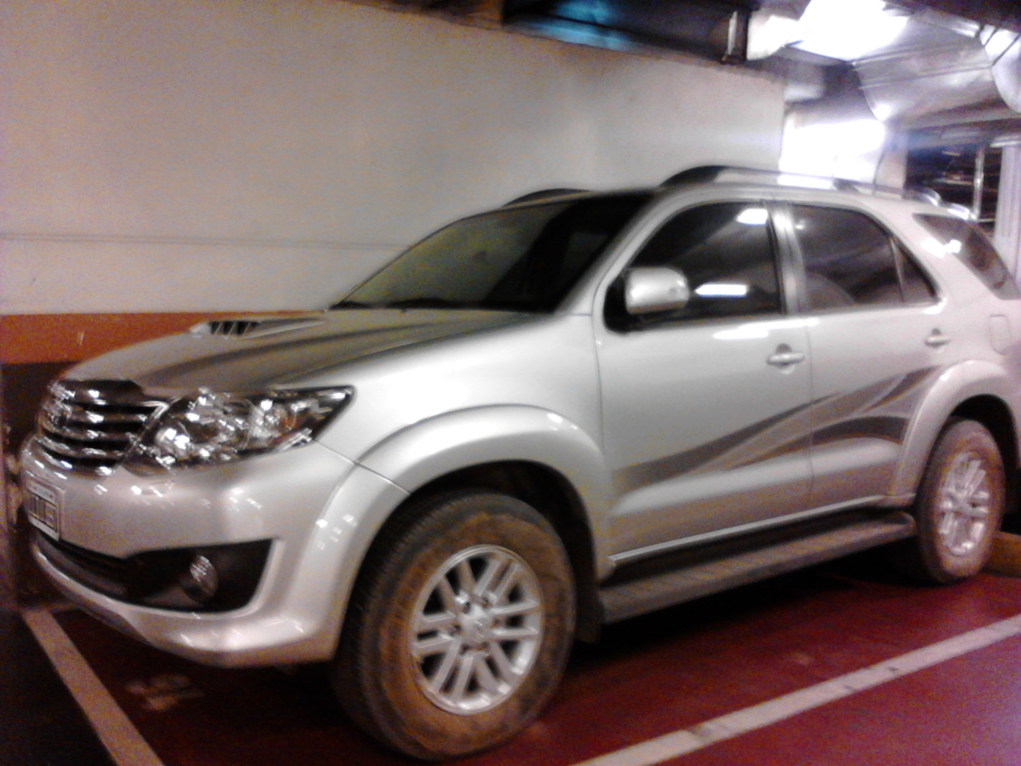 Toyota Hilux SW4 2012 Argentina